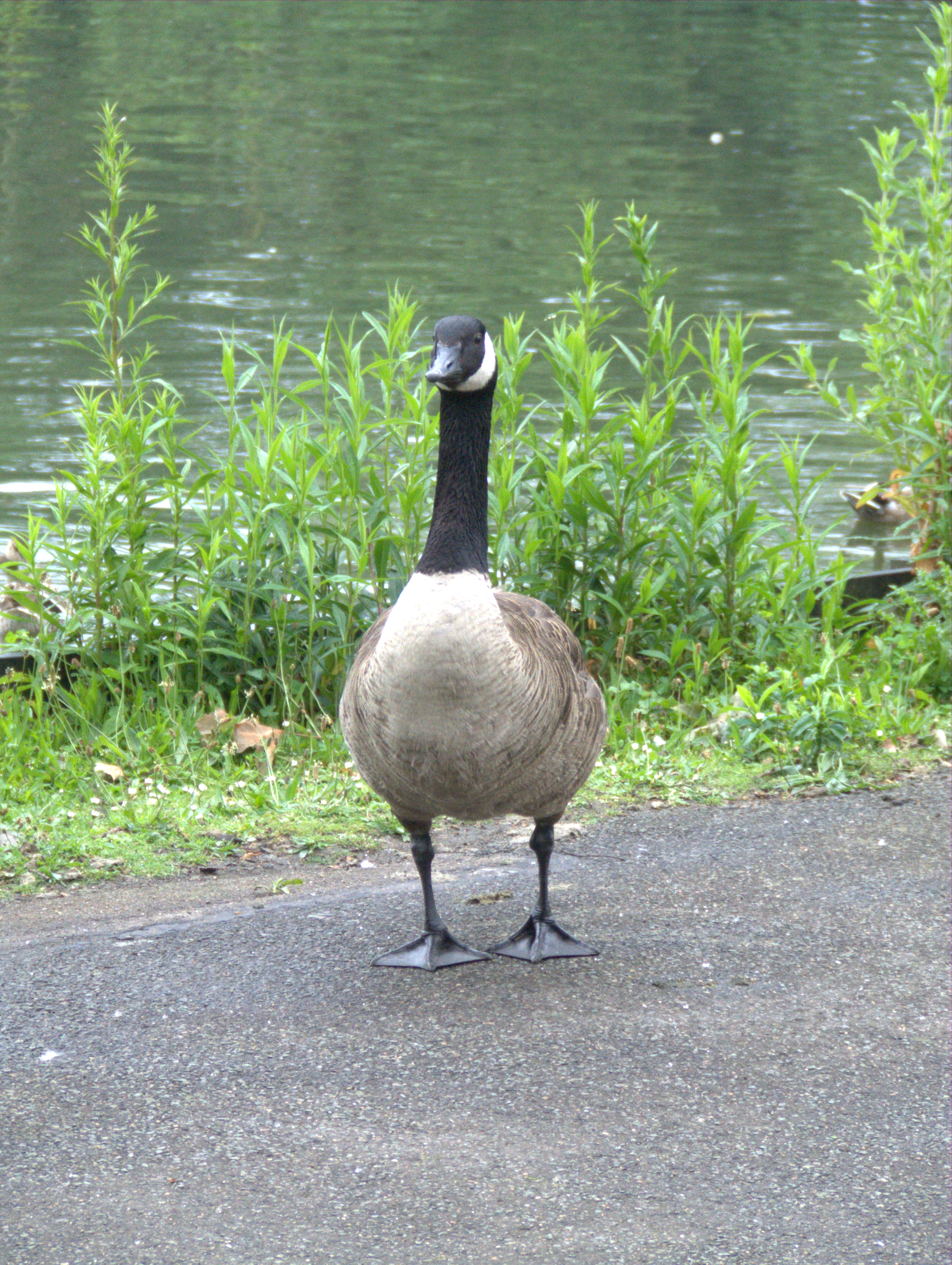 A Canada Goose by the side of the lake in South Park, Ilford.